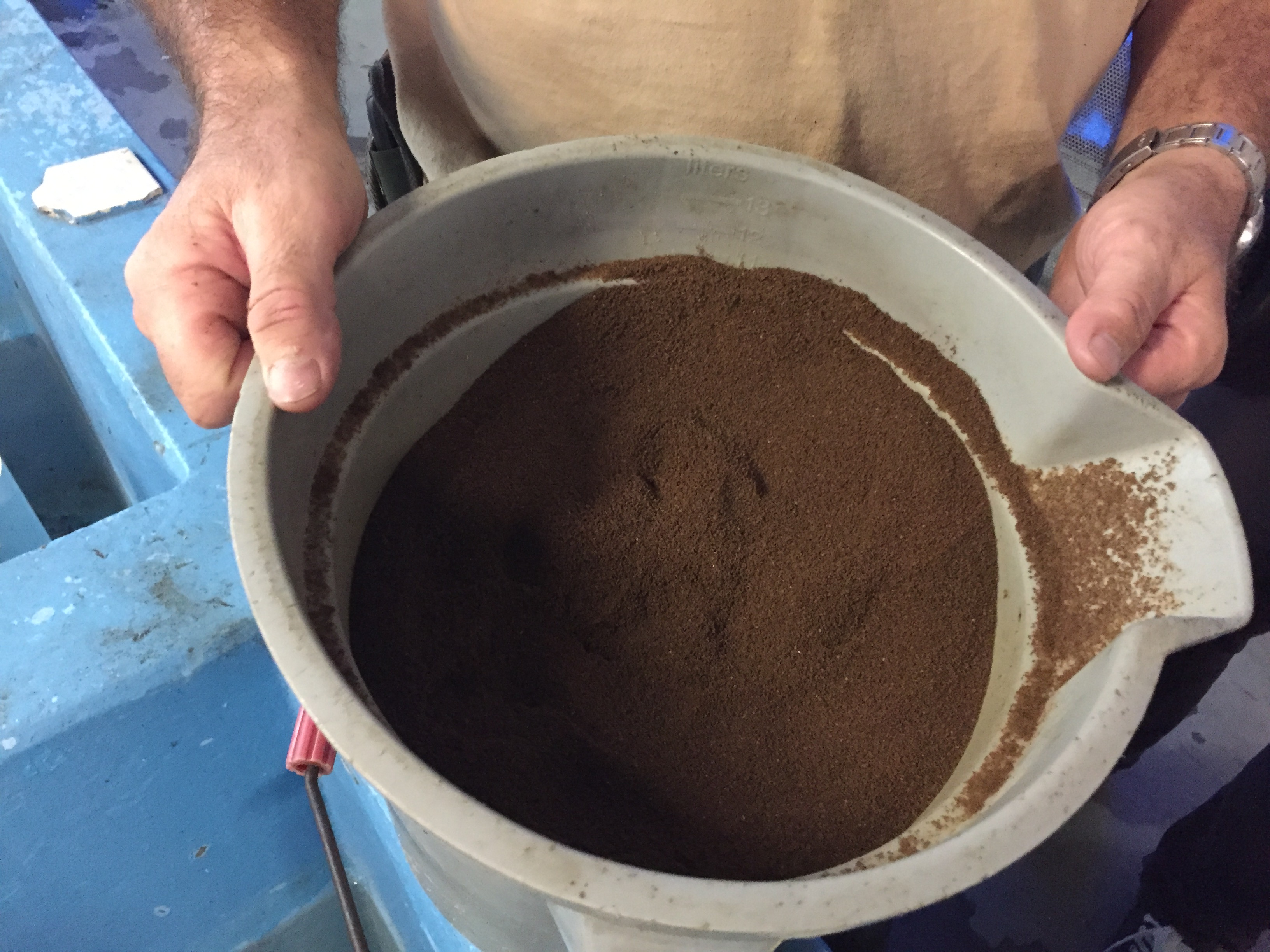 Juvenile Fish Feed.